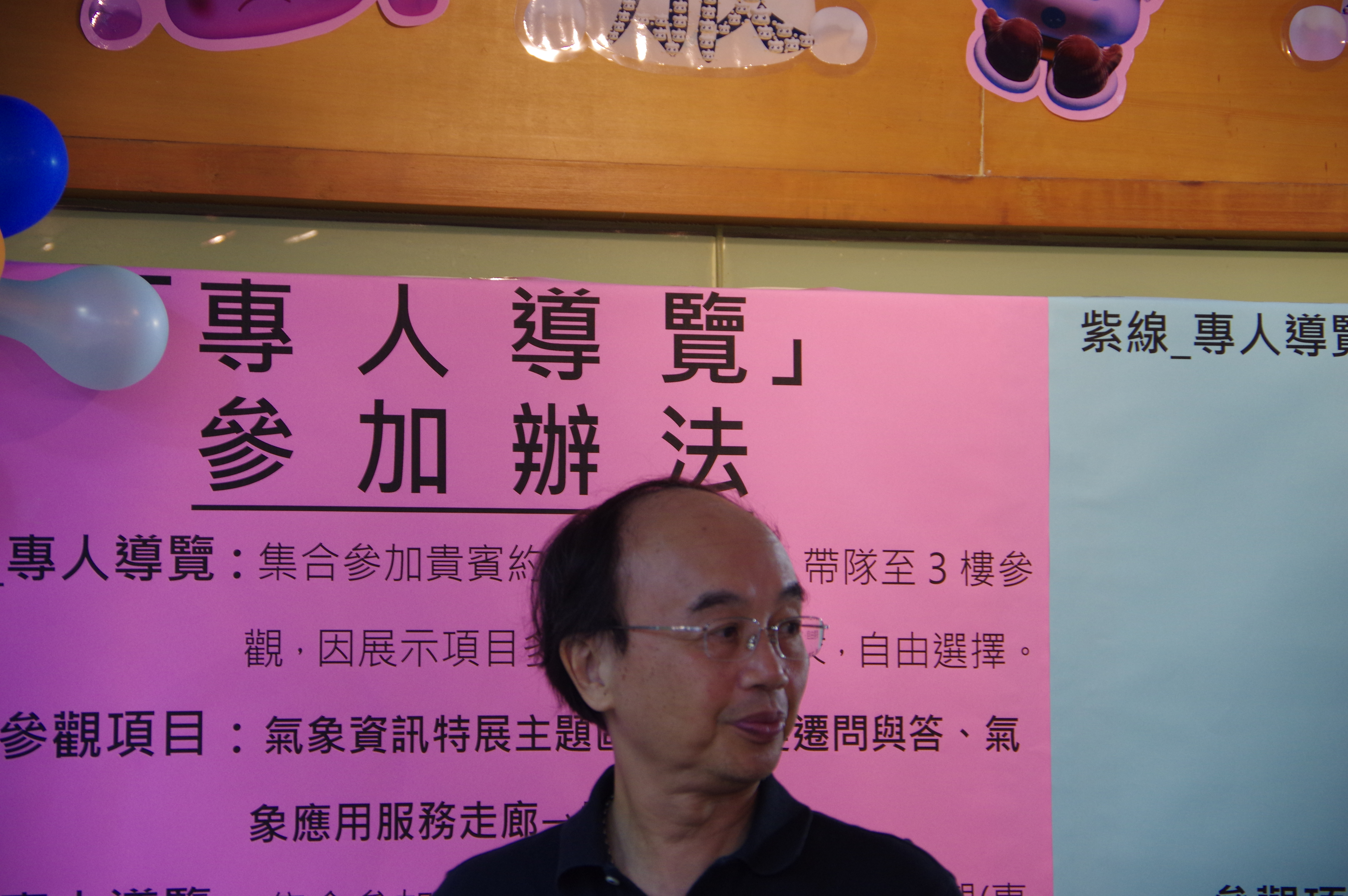 Tzay-Chyn Shin, Taiwanese seismologist and the Director-General of Central Weather Bureau.